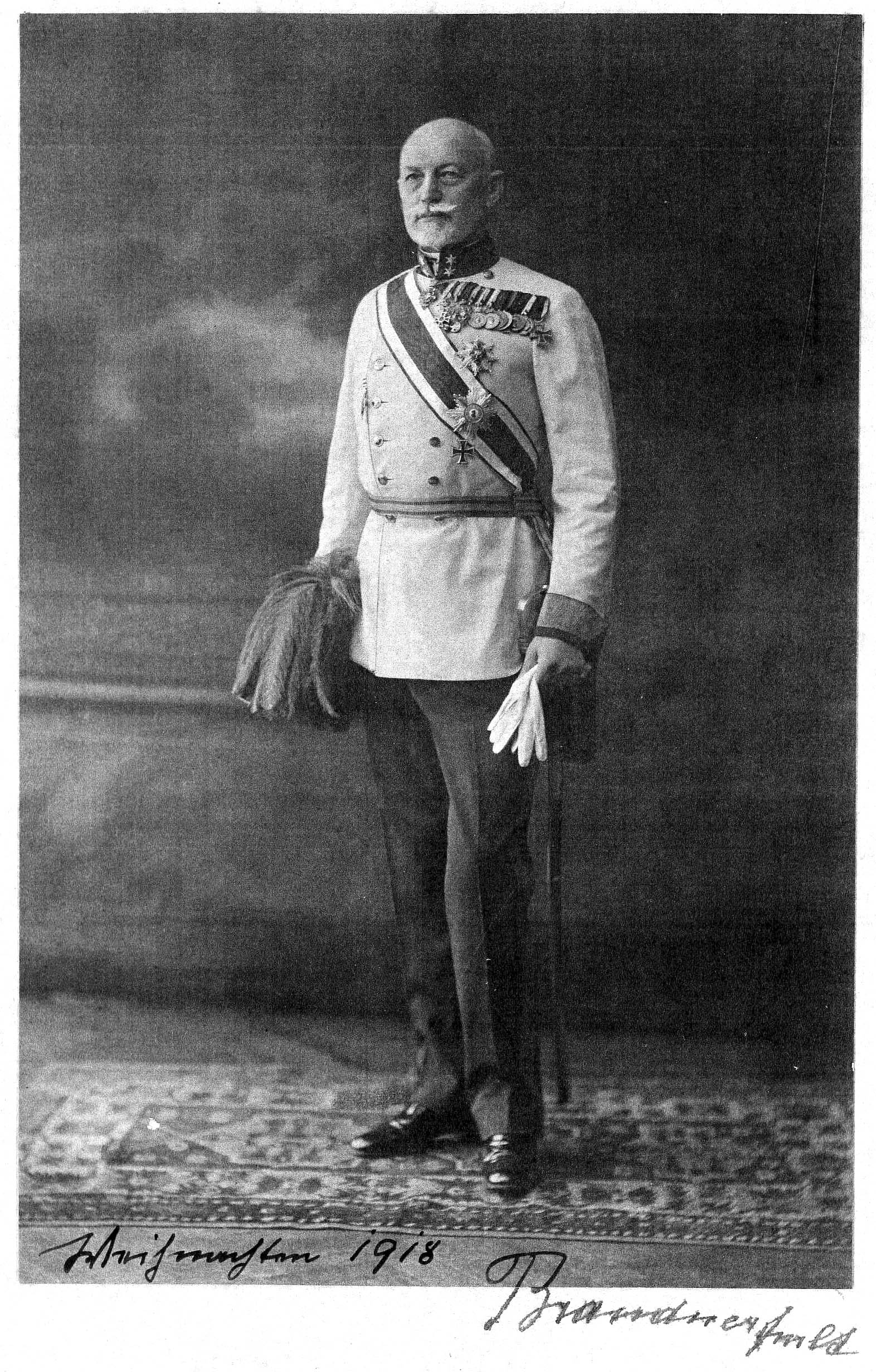 Field marshal lieutenant in retirement Adam von Brandner 1918